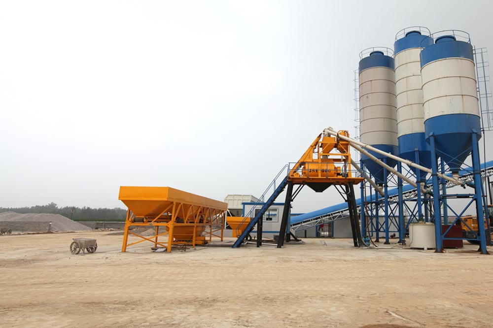 picture of hopper lift concrete plant.